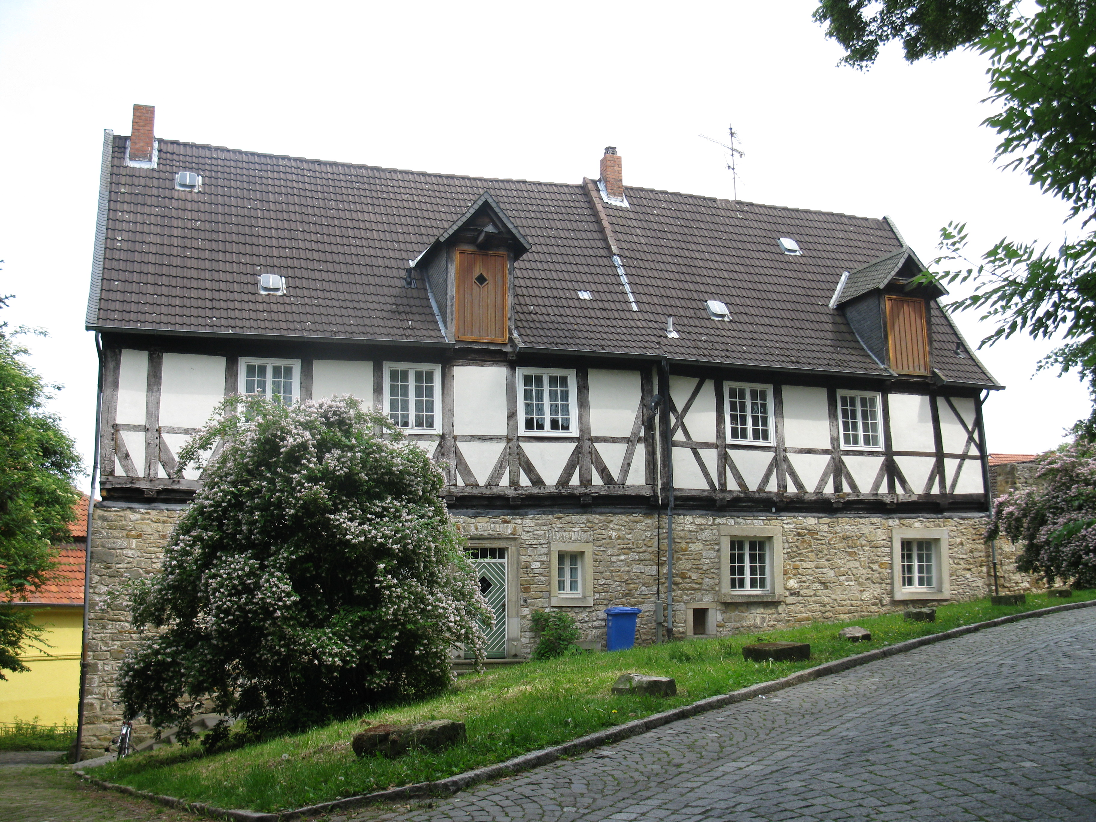 Half-timbered house (1654) "Kratzbergscher Hof", Große Steuer, Hildesheim